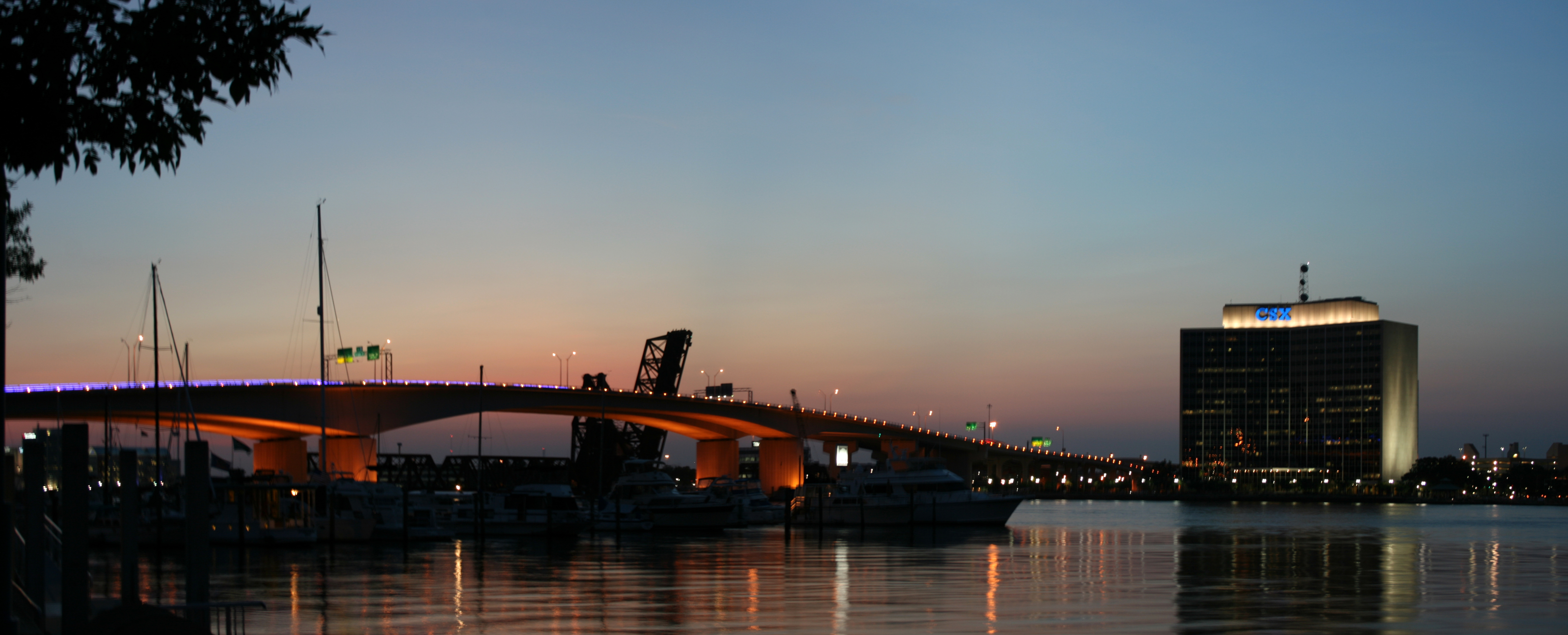 Panorama of the Acosta Bridge and the CSX Building at night in Jacksonville, Florida, USA.